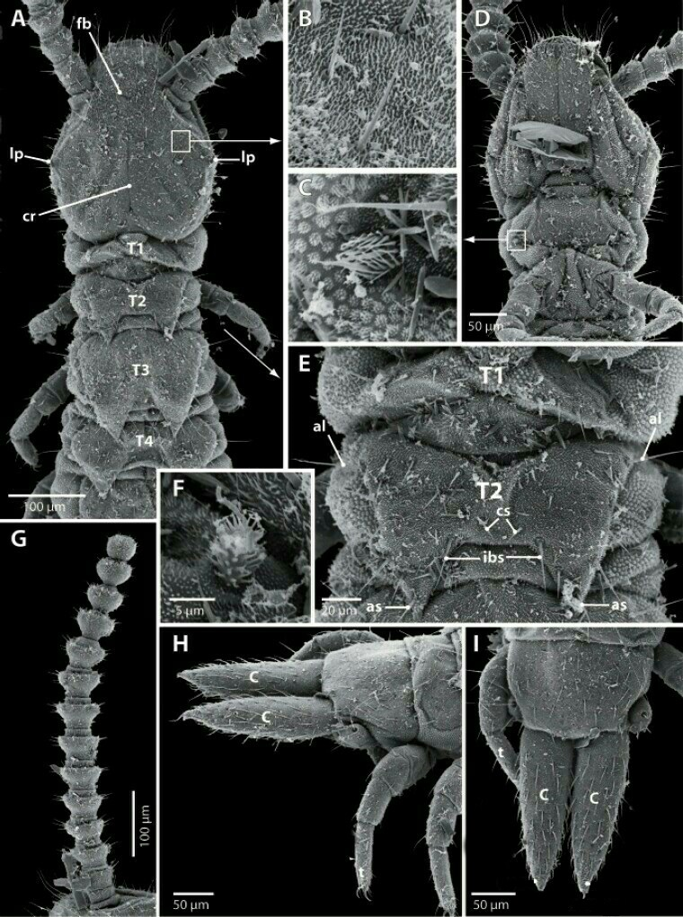 Symphylella erecta sp. nov., holotype (dorsal and lateral views) and paratype MRAC 22149 (ventral view). A. Head and fi rst 4 tergites (T1, T2, T3, T4), dorsal view. Cr, central rod; fb, frontal branches; lp, lateral protuberances of head. B. Detail of the surface of head. C. Detail of fi rst leg. D. Head and fi rst 2 pairs of legs, ventral view. E. Detail of fi rst (T1) and second tergites (T2). Al, anterolateral setae; as, apical setae; cs, central setae of the posteromarginal setae; ibs, inner basal setae of the posteromarginal setae. F. Stylus of leg 10. G. Right antenna. H. Posterior part of trunk, last pair of legs (t, tarsus) and cerci (C), lateral view. Arrows: erect setae of tarsus, es, ventral erect setae of cercus. I. Posterior part of trunk, last left leg and cerci (C), dorsal view. Arrows: two erect setae of tarsus (t) of the last left leg; as, apical seta; es, erect setae of the outer side of the cerci; ta, terminal area.